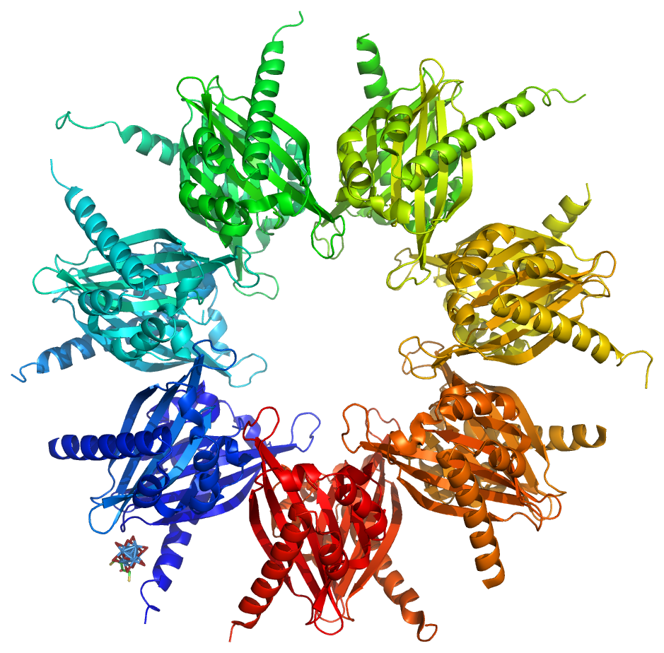 The tetradecameric assembly of the association domain of Ca2+/calmodulin-dependent kinase II (CaMKII), created from 1hkx.pdb using PyMol.